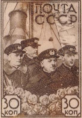 Postage stamp of the Soviet Union. Members of the polar station North Pole-1 on the board of the Icebreaker Taymyr. 1938, CPA 604.